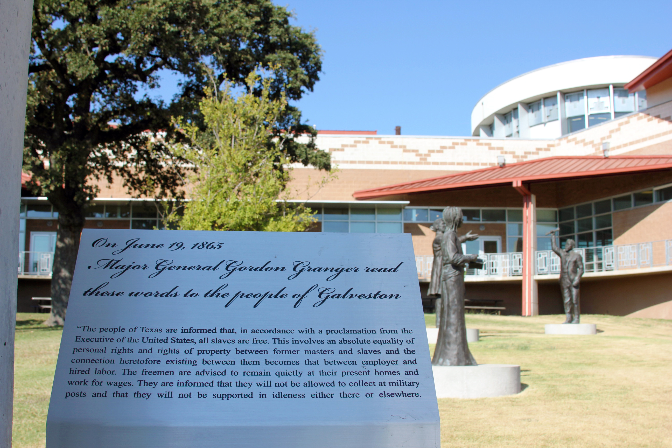 The monument at the George Washington Carver Museum shows how the news of freedom spread. Juneteenth began on June 19, 1865 with an order read by General Gordon Grainger—a law that the Emancipation Proclamation was enforced. So Legislature learned of freedom first, then the news reached The Pastor (who represents the faith leader in African American Community). The Pastor told the enslaved people represented by the Freed Man and Freed Woman, and they shared the news with youth-the Child figure. Sculptors: Adrienne Rison Isom and Eddie Dixon.